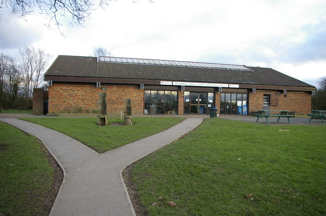 Visitor Centre, Woodgate Valley Country Park Woodgate Valley Country Park is an area of countryside in the heart of Bartley Green and Quinton. The park comprises 450 acres of meadows, hedgerows and woodland with the Bourn Brook running through its centre. Originally a mosaic of farms and smallholdings the park has retained much of its rural character. The visitor centre is located off Clapgate Lane, and is the base for the rangers, as well as housing a cafe.